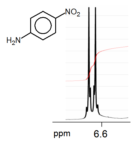 (CDCl3 300 MHz)